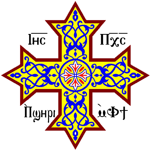 This is one of many coptic crosses out there.